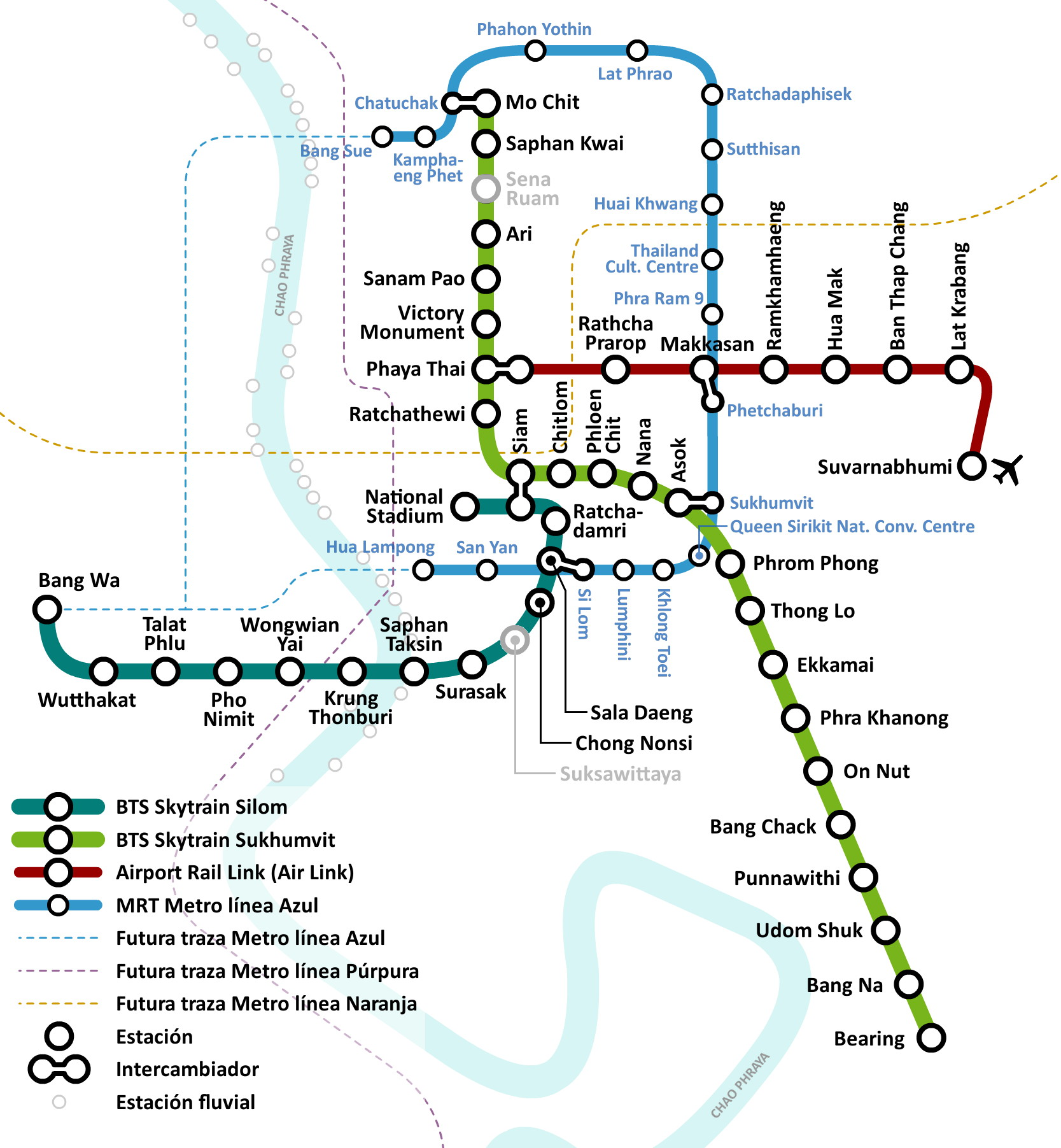 Bangkok transport (Thailand): BTS Skytrain, Air Link, MRT Metro and extensions. 2015